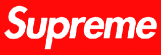 Logo of Supreme clothing company in New York City